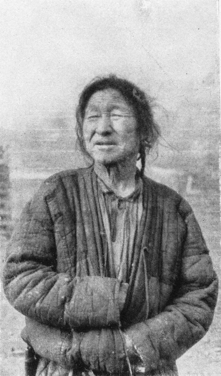 1913 photograph of a woman of the Ket people. Presumably taken at Sumarokova, Siberia. Caption says "Yenisei-Ostiak woman (Sept. 16th)".